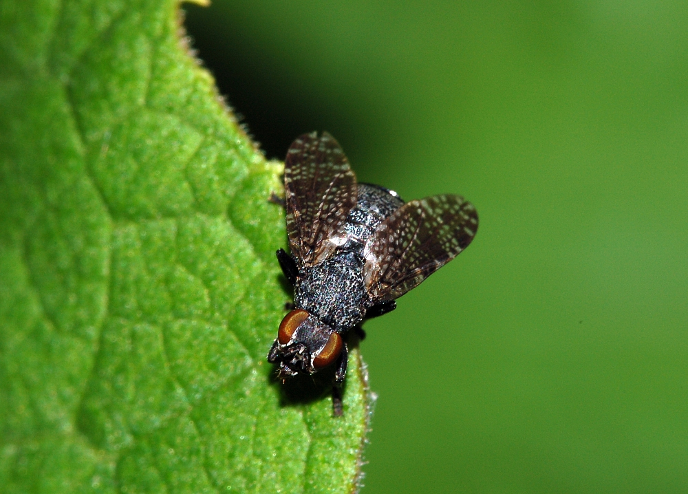 Platystoma seminationis, Nied, Frankfurt/Main, Germany